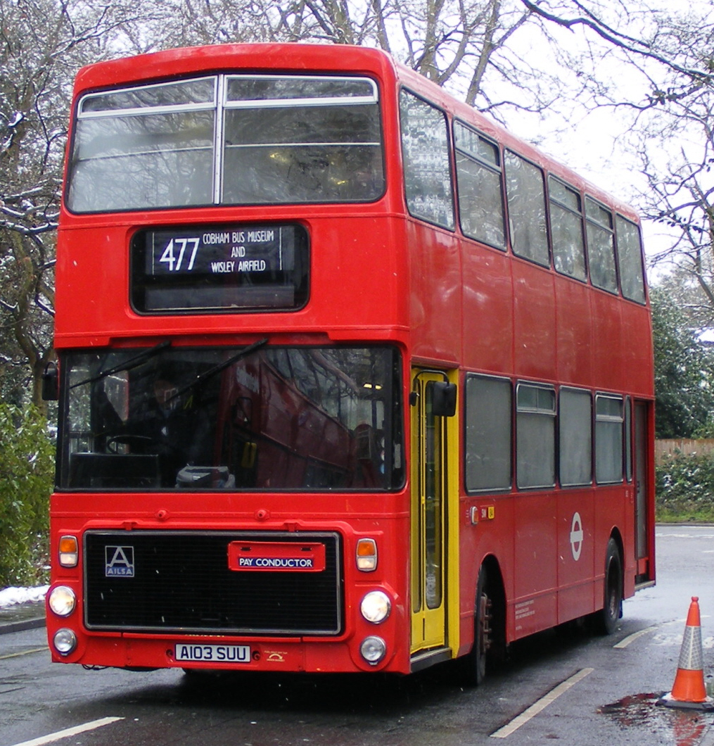 Preserved London Buses bus V3 (reg. A103 SUU), their 1984 2-staircase Volvo Ailsa demonstrator built for the Alternative Vehicle Evaluation (AVE) trials, pictured here at the 2008 Cobham bus rally where it's operating the shuttle service between Cobham Bus Museum and the rally site at Wisley Airfield.